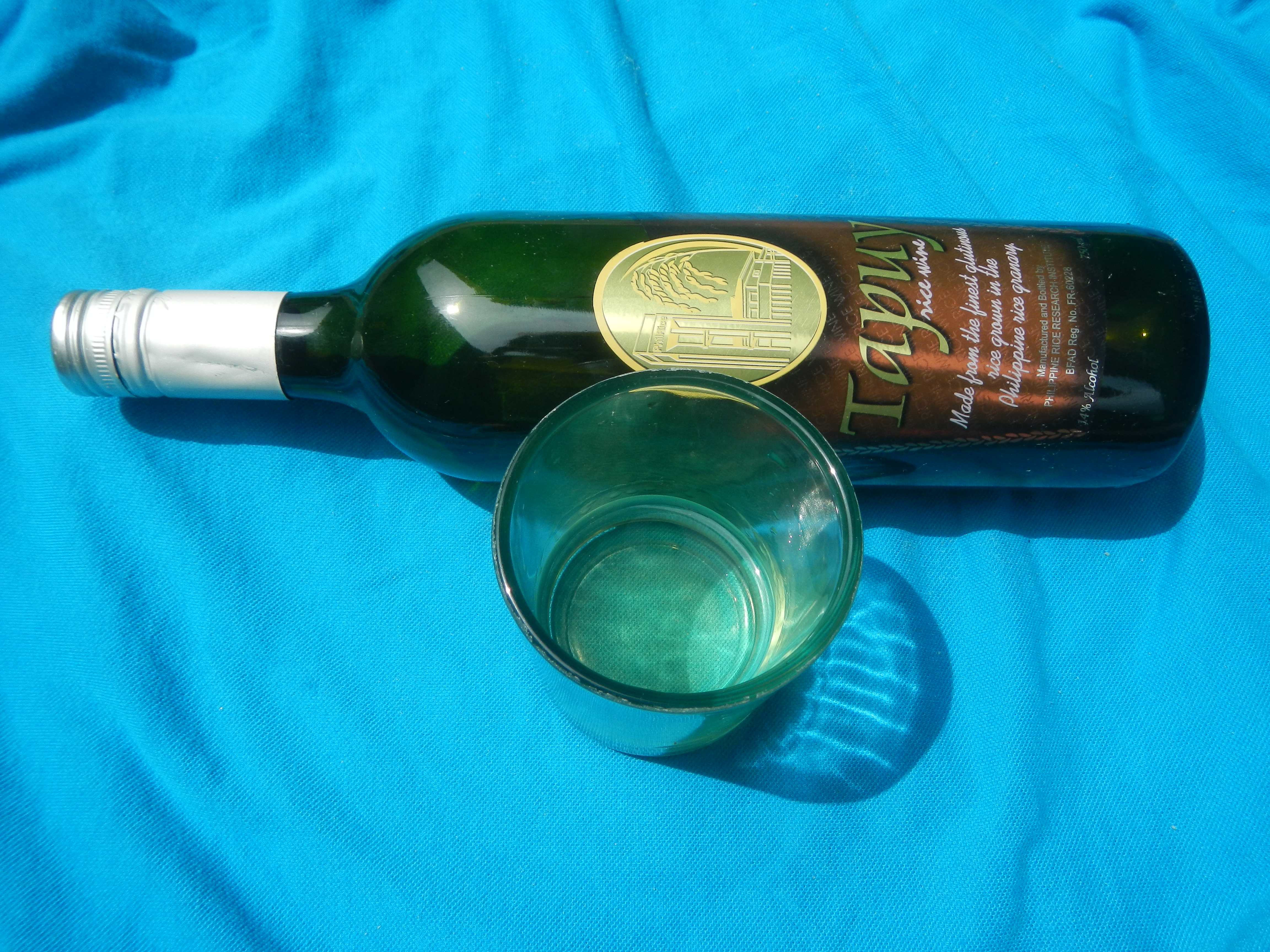 Cuisine of Bulacan Sinangag Omelettes in the Philippines Fried garlic Tapuy Waffles of the Philippines Waffle dogs Angel's Hamburger Ang Burger ng Bayan photos taken in Baliuag, Bulacan, Bulacan (Note: Judge Florentino Floro, the owner, to repeat, Donor Florentino Floro of all these photos hereby donate gratuitously, freely and unconditionally all these photos to and for Wikimedia Commons, exclusively, for public use of the public domain, and again without any condition whatsoever).